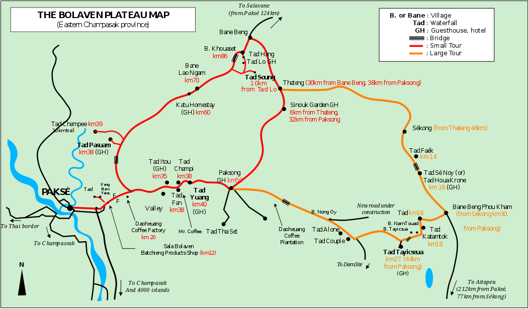 Map of the bolaven plateau